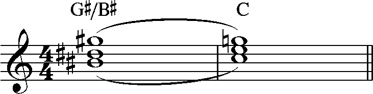 G sharp to C progression